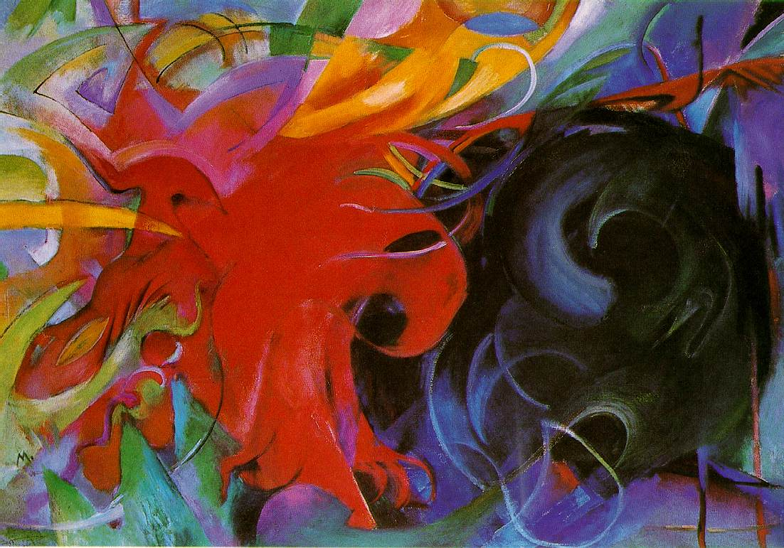 Fighting Forms (1914) by Franz Marc (8 February 1880 – 4 March 1916) Other version: :Image:Franz Marc 012.jpg (on Commons)